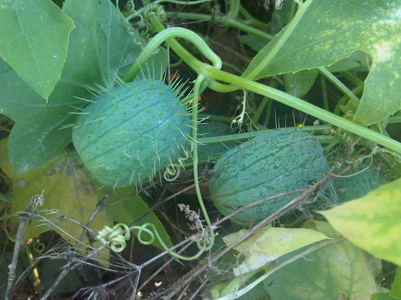 Wild cucumber (Echinocystis lobata) fruits in Transylvania.